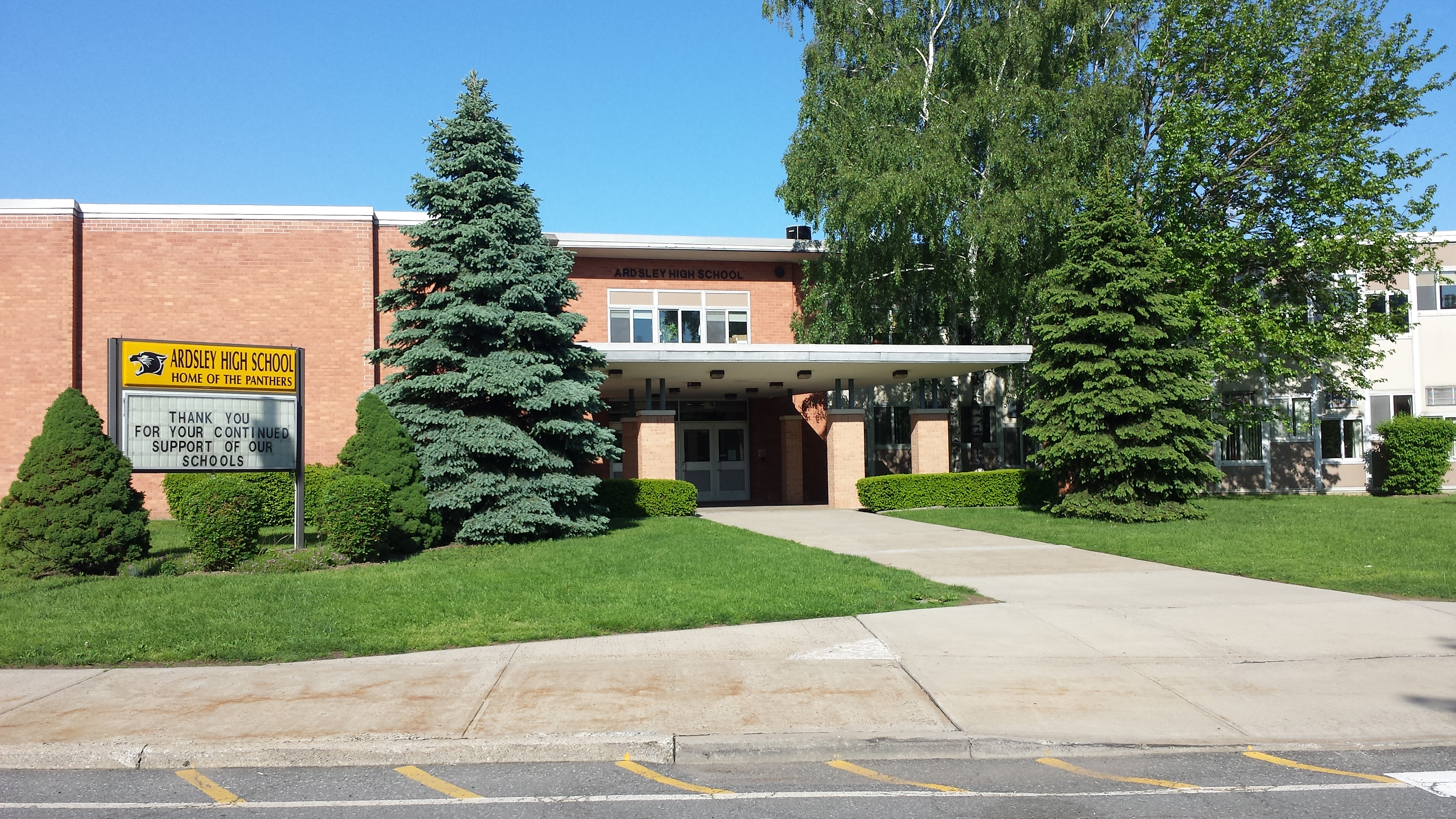 Ardsley High School Front Entrance, Ardsley, New York